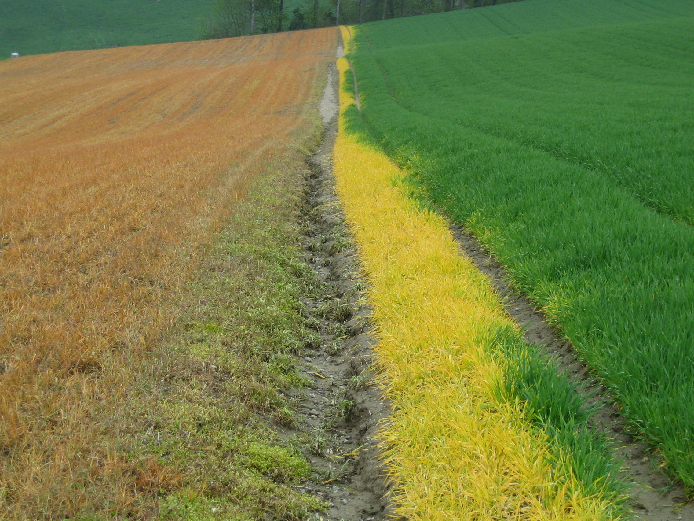 No-till farming to prevent soil erosion, canton of Bern, Switzerland